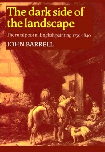 Cover of The Dark Side of the Landscape: the Rural Poor in English Painting, 1730-1840. Cambridge University Press, 1980.